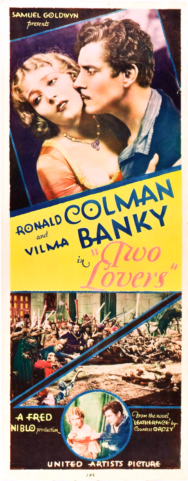 Poster for the 1928 film Two Lovers. There are no copyright marks on the item as can be seen on the poster and the link above. At lower left is Lubin Pub. Co.-they printed the poster--a handwritten 146 at middle and at lower left is Made in USA.